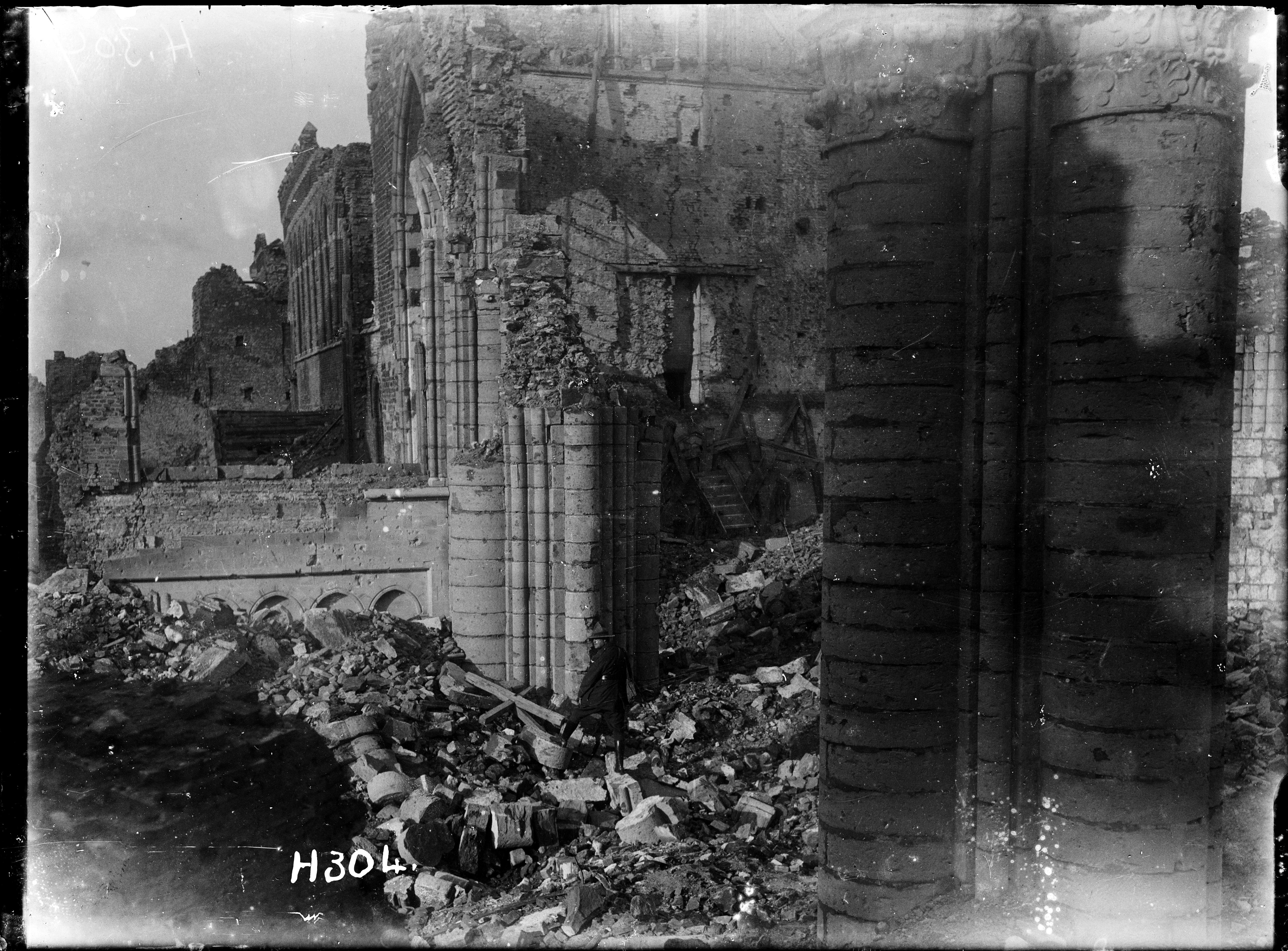 A lone soldier pictured among the ruins of Ypres Cathedral severely damaged during World War I. Photograph taken 18 October 1917 by Henry Armytage Sanders. Inscriptions: Inscribed - Photographer's title on negative -bottom left: H304. Quantity: 1 b&w original negative(s). Physical Description: Dry plate glass negative 4.75 x 6.5 inches The historic ruins of Ypres Cathedral. Royal New Zealand Returned and Services' Association :New Zealand official negatives, World War 1914-1918. Ref: 1/2-012947-G. Alexander Turnbull Library, Wellington, New Zealand.